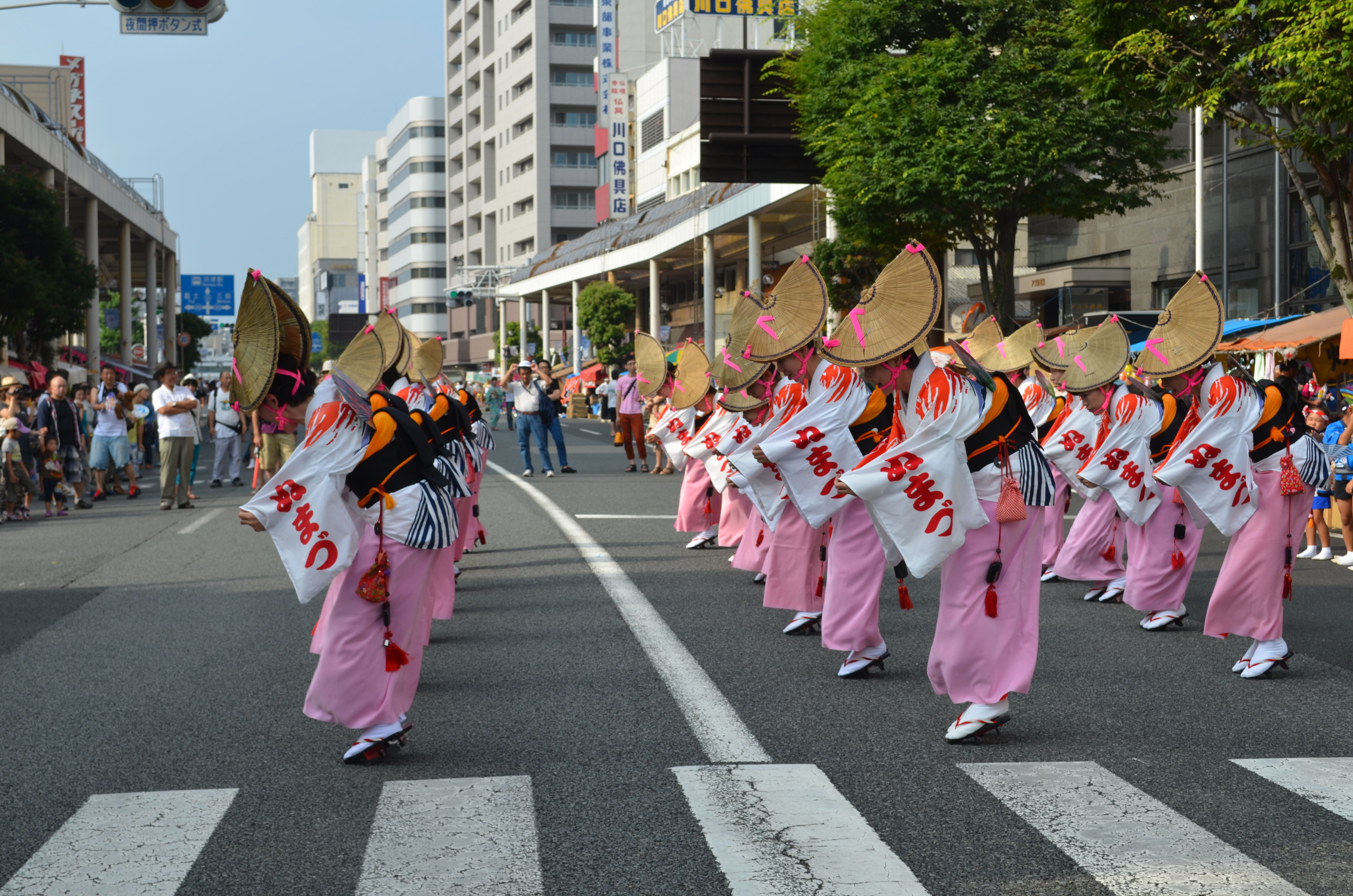 Summer festival in Numazu city.